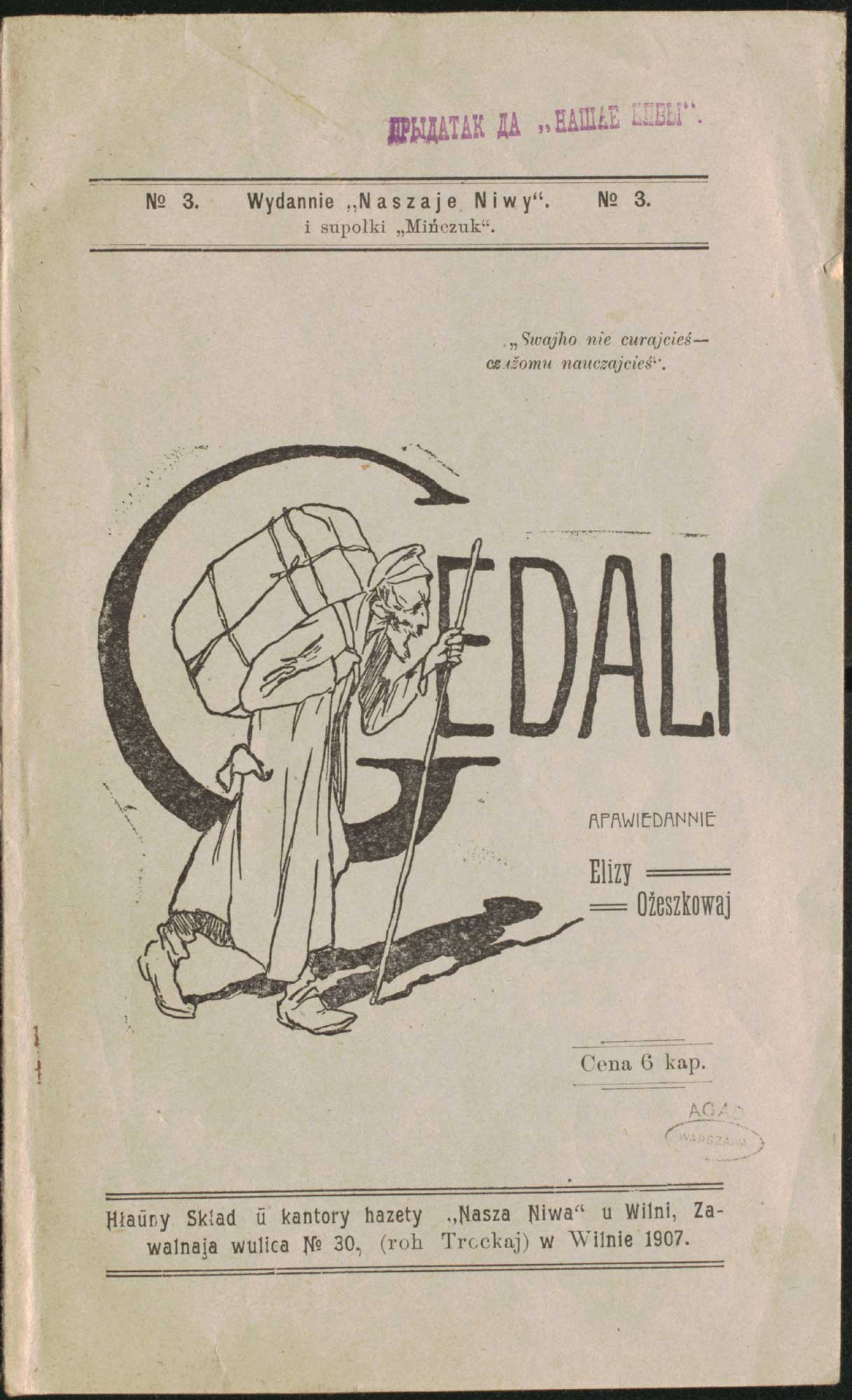 Page from Nasha Niva, Belarusian weekly newspaper founded in 1906. No 3 from 1907 included Eliza Orzeszkowa's story.